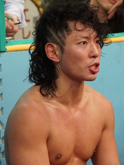 Professional wrestler Masa Takanashi at a Gatoh Move Pro Wrestling event.